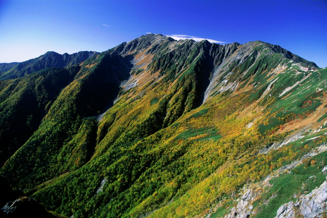 04_Ainodake_from_Happonbanokashira_2001-10-3